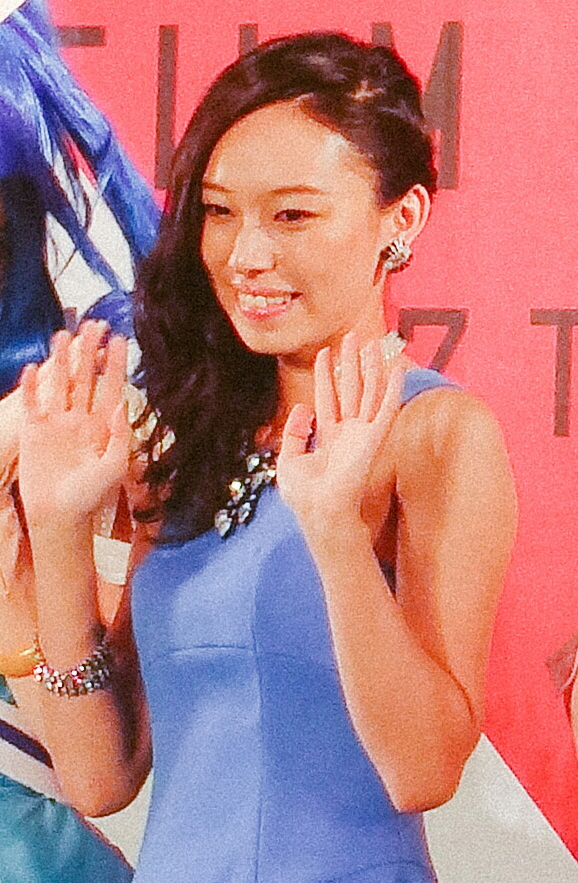 A cropped version of the previously uploaded photo of DokiDoki Pretty Cure!'s seiyu, uploaded by Coro95.